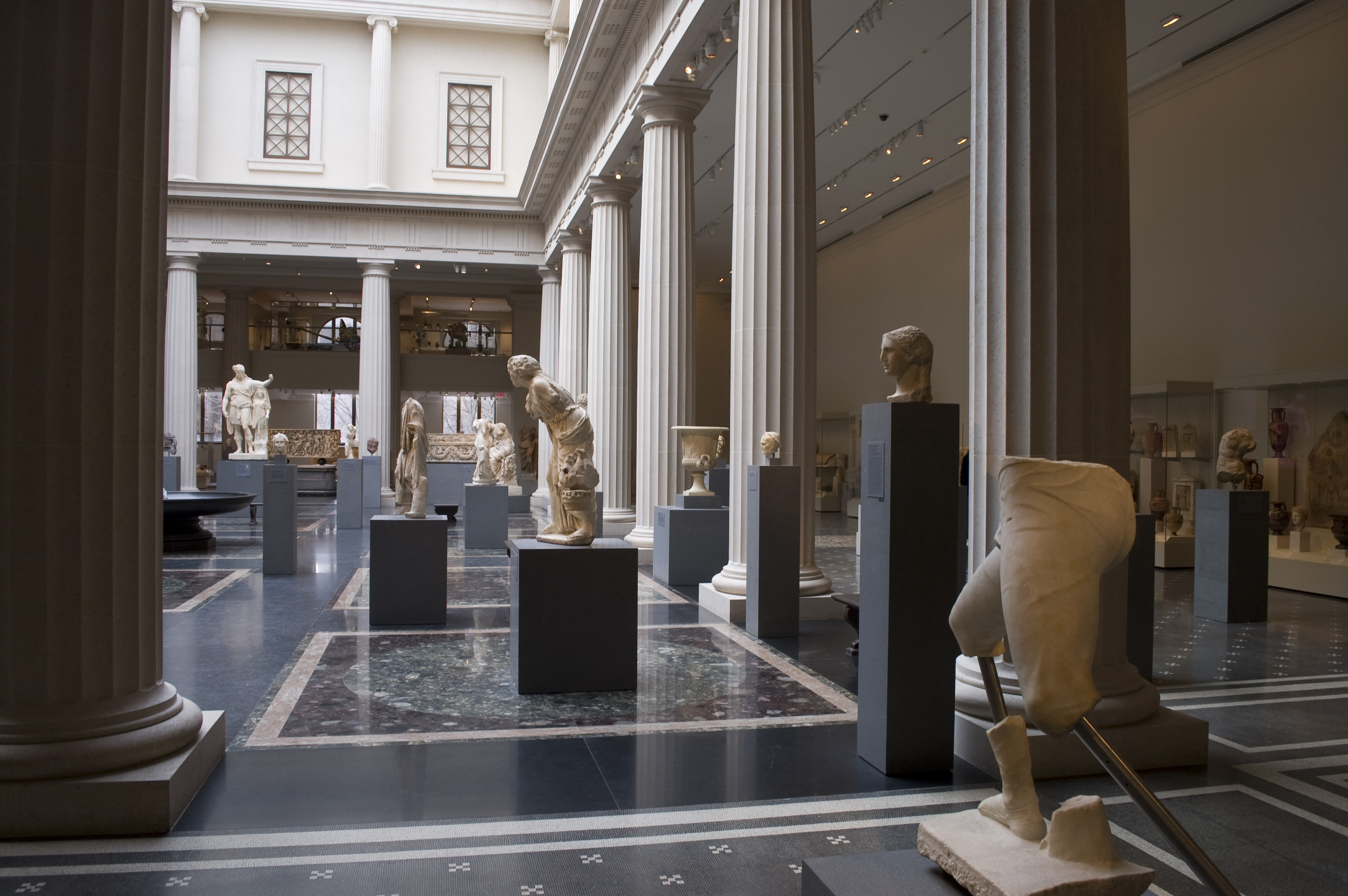 A view of new Roman Gallery in the Metropolitan Museum of Art.